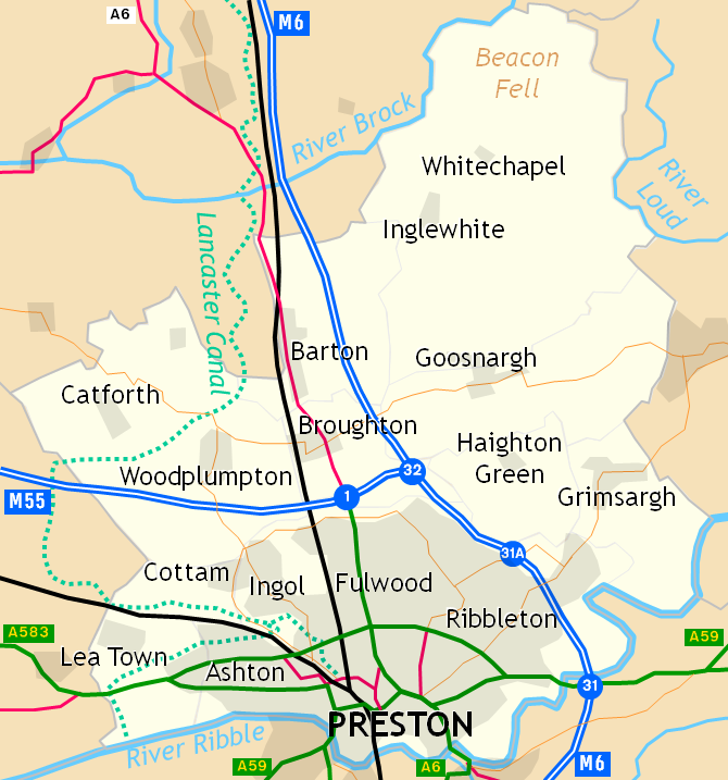 Places in the City of Preston, England, a local government district.